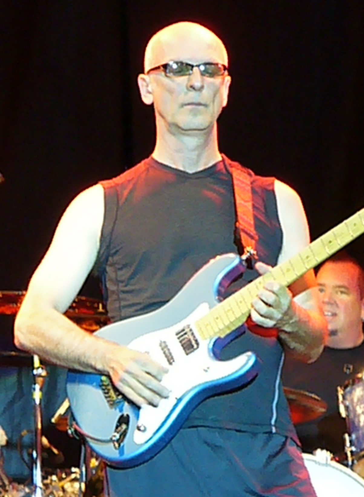 Canadian musician Kim Mitchell, performing at the 2008 Fergus Truck Show